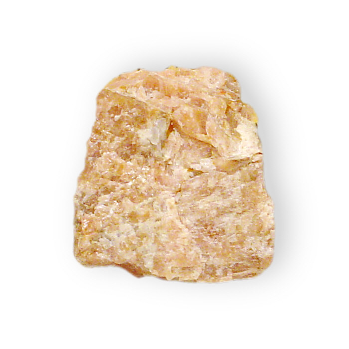 These mineral images are free to use how you wish.